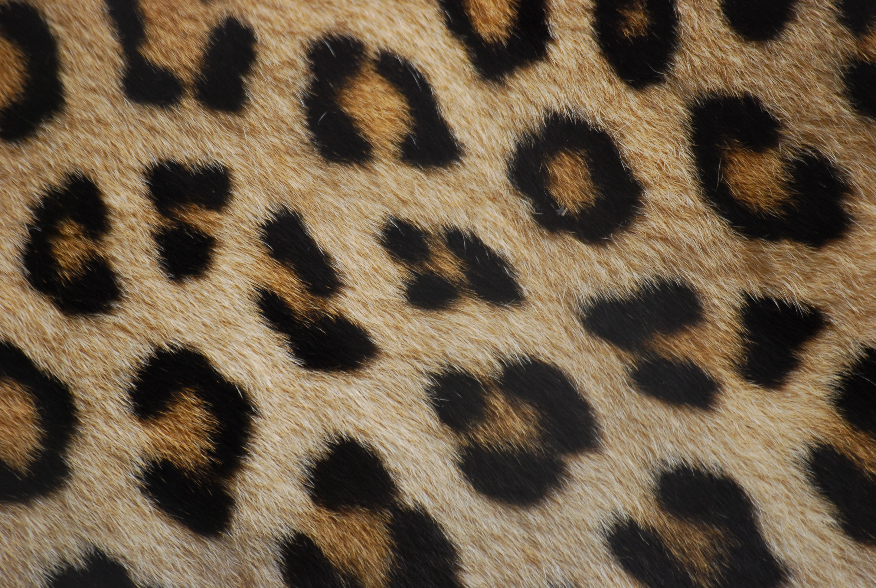 a leopard in South Africa